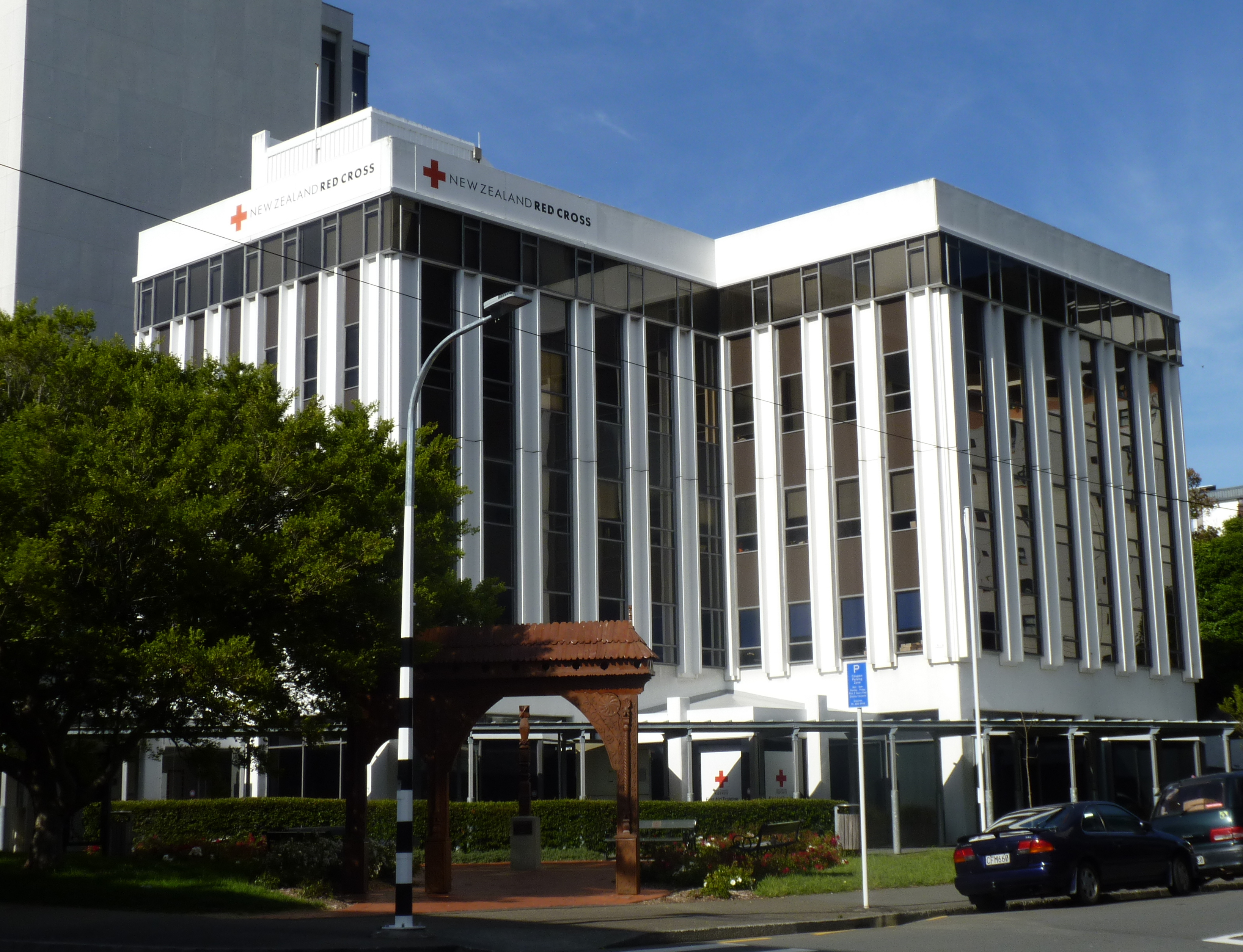 Red Cross New Zealand. Wellington, New Zealand